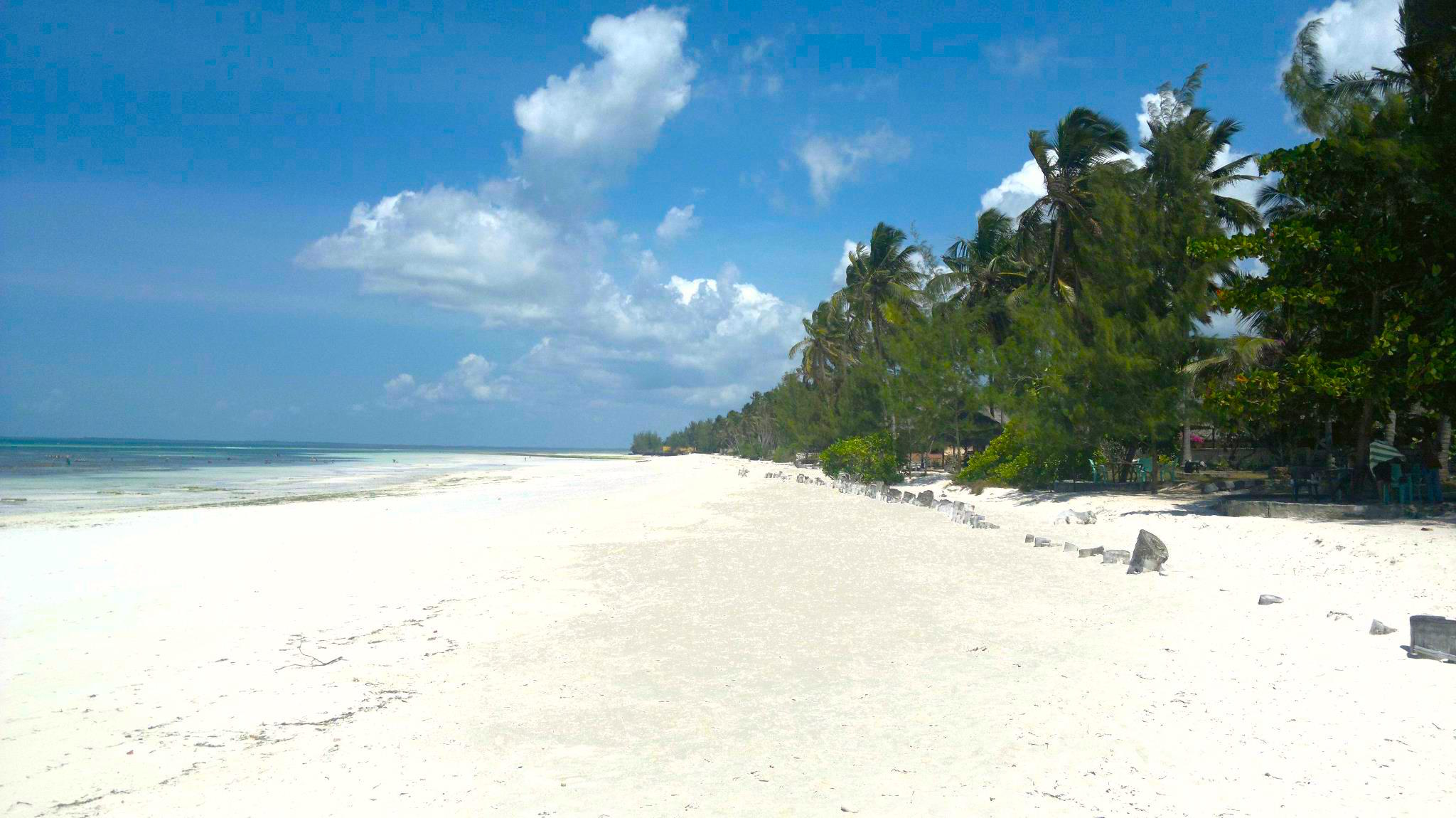 Uroa Beach by Uroa Bay Beach Resort, August 2012.